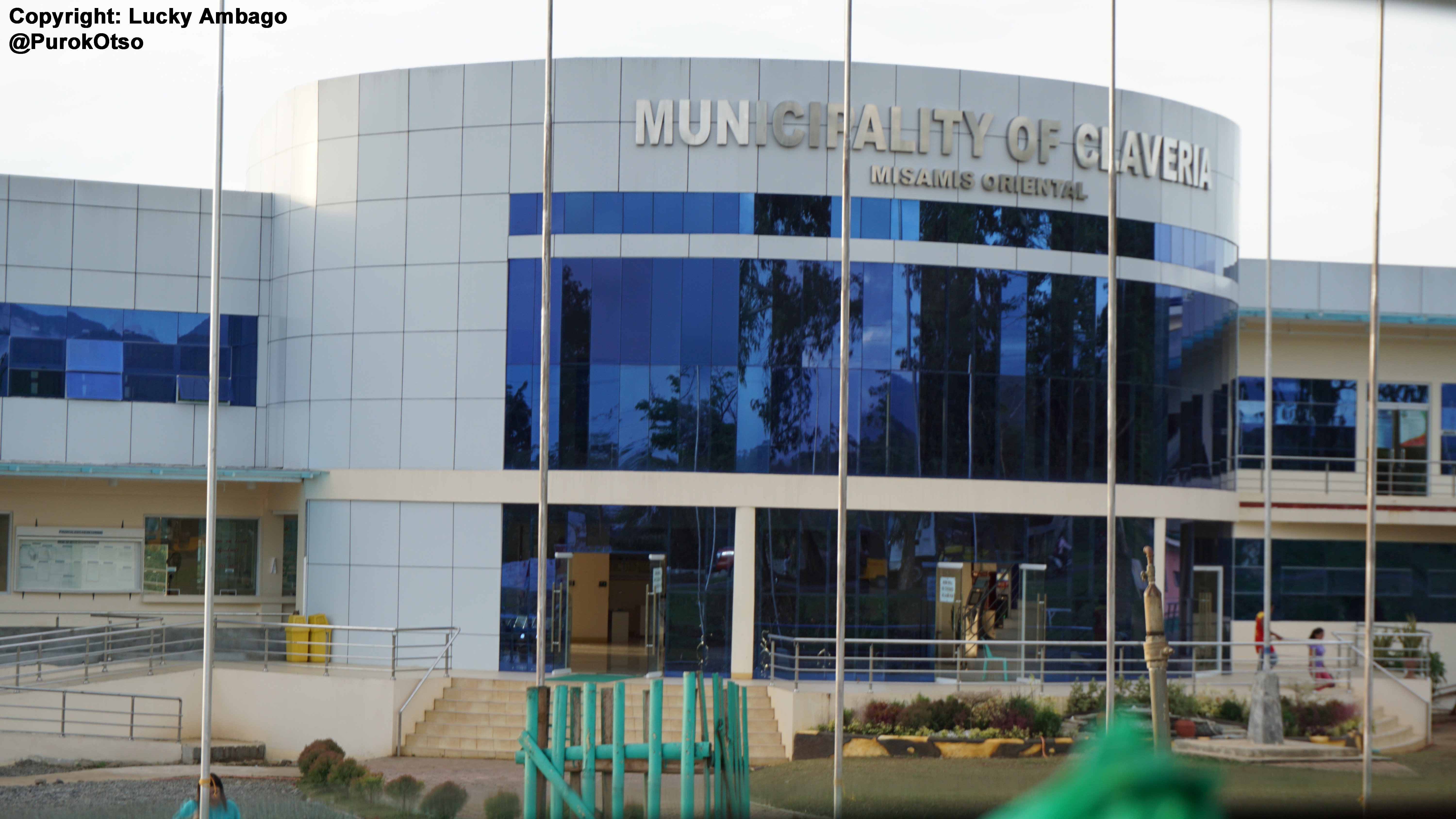 Claveria Municipal Hall was located at Gingoog-Claveria-Villanueva Road in Misamis Oriental.